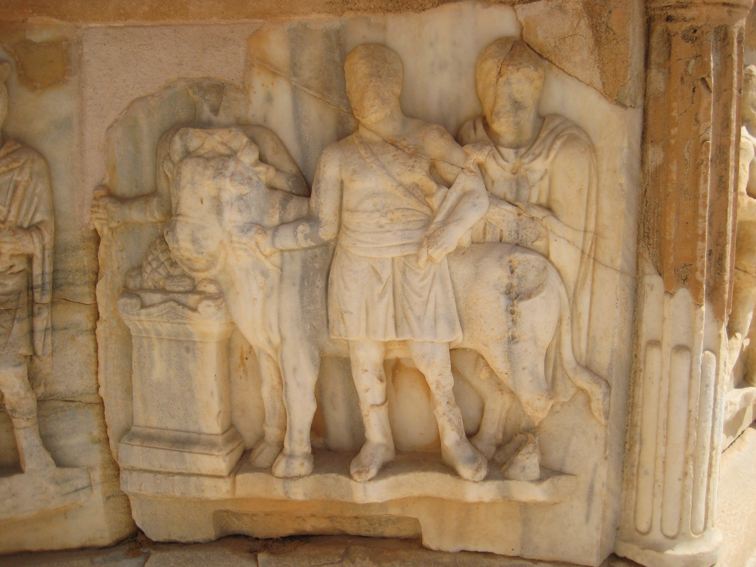 Bas-Relief (on bottom of stage), theater in Sabratha city 2nd century A.D. Libya